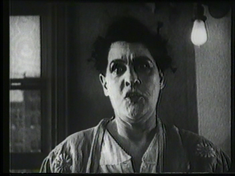 Phyllis Allen from "Pay Day".